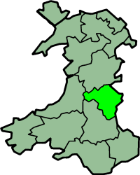 one of the historic counties of Wales